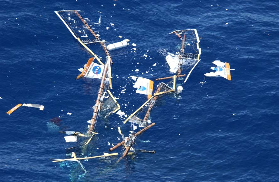 Wreckage of the NASA AeroVironment Helios Prototype in the Pacific Ocean